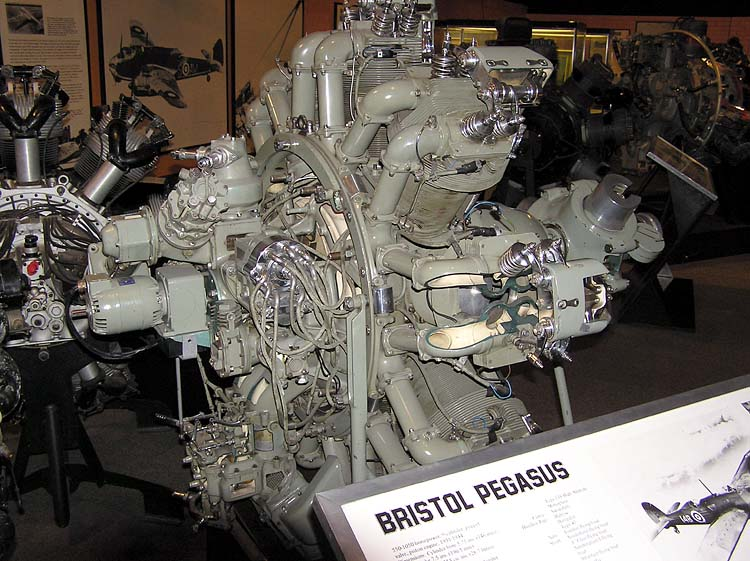 Bristol Pegasus piston engine at Bristol Industrial Museum, Bristol, England. Taken by Adrian Pingstone in August 2004 and released to the public domain. This work has been released into the public domain by its author, Arpingstone at the English Wikipedia project. This applies worldwide. In case this is not legally possible: Arpingstone grants anyone the right to use this work for any purpose, without any conditions, unless such conditions are required by law.